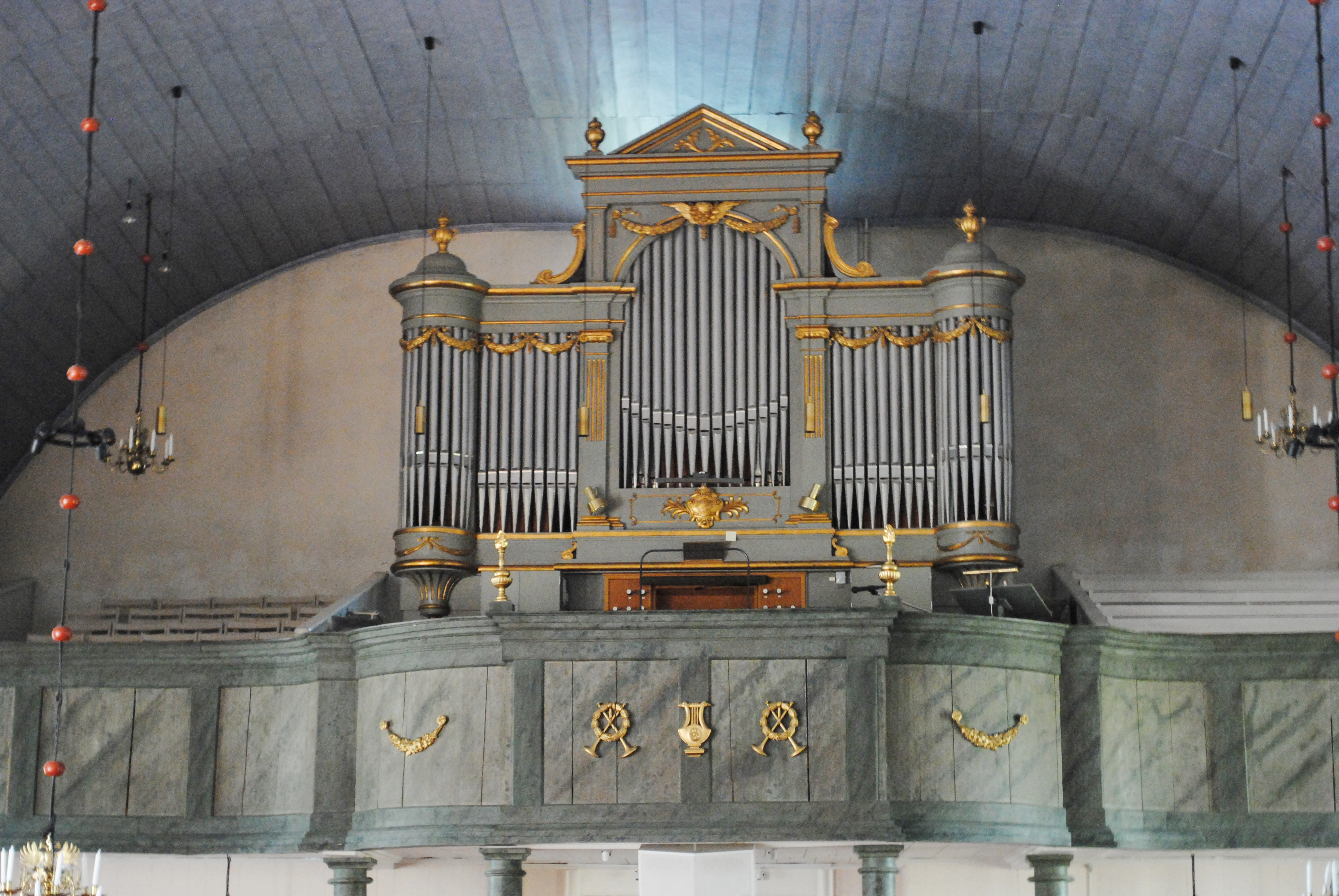 Torsås Church.Organ